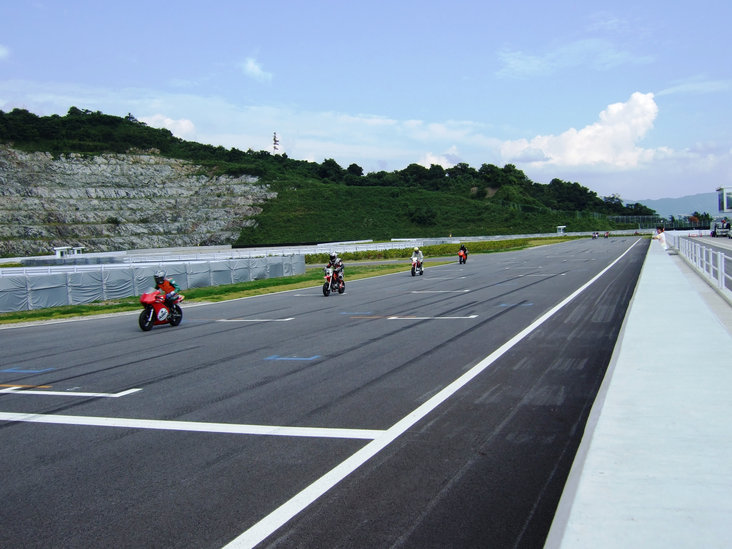 SPA Nishiura Motor Park Straight(416m)